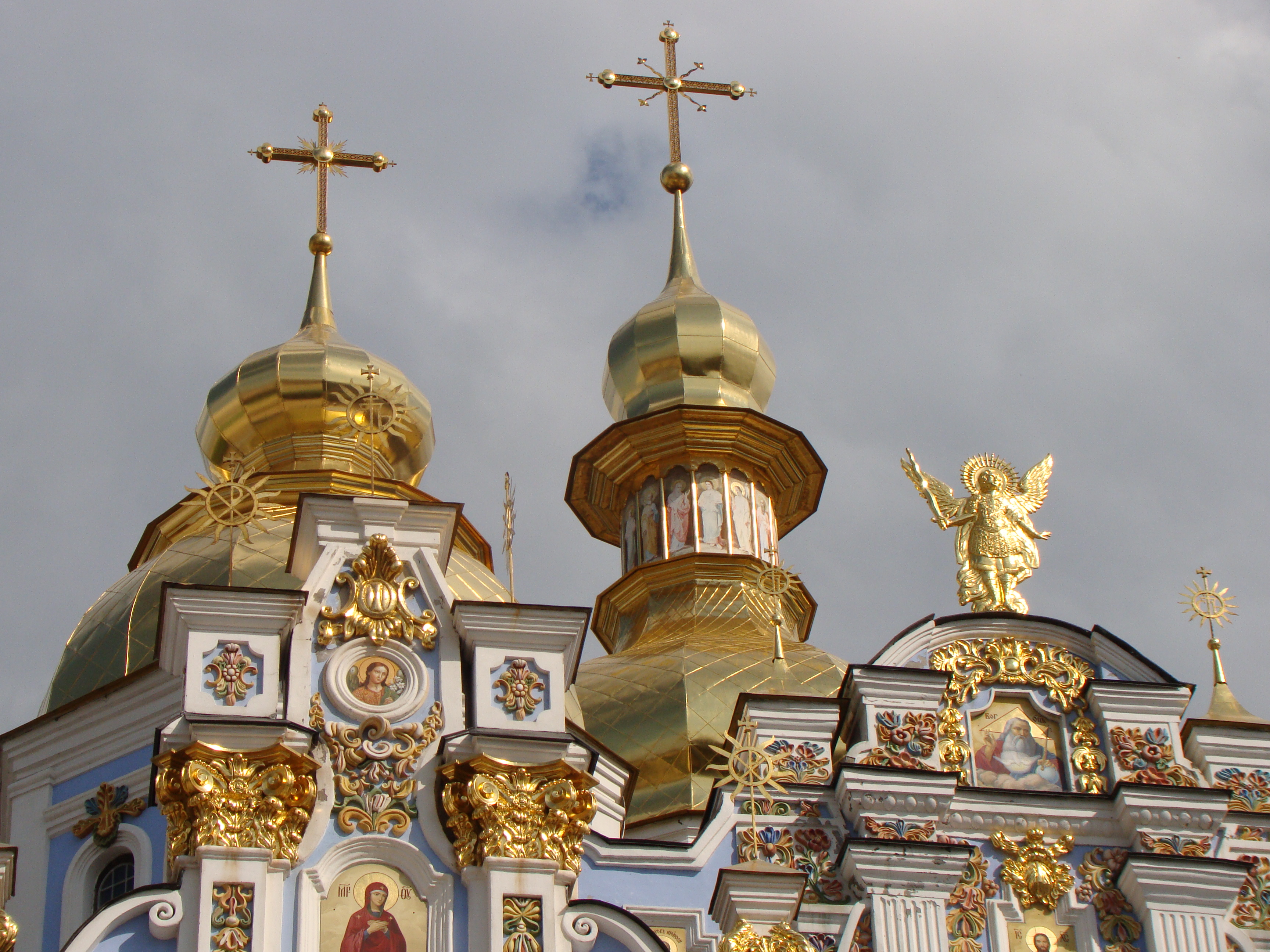 St. Michael's Golden-Domed Monastery. А statue of the Archangel Michael.